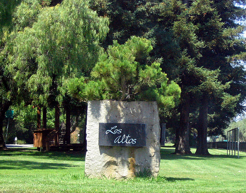 These unique entrance ornaments are placed on or next to all major thoroughfares to greet visitors to Los Altos. This particular one is located in Lincoln Park, just off of Main Street at the border with Los Altos Hills.